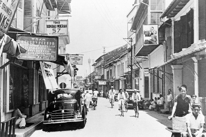 The 'Passarstraat' in Makassar